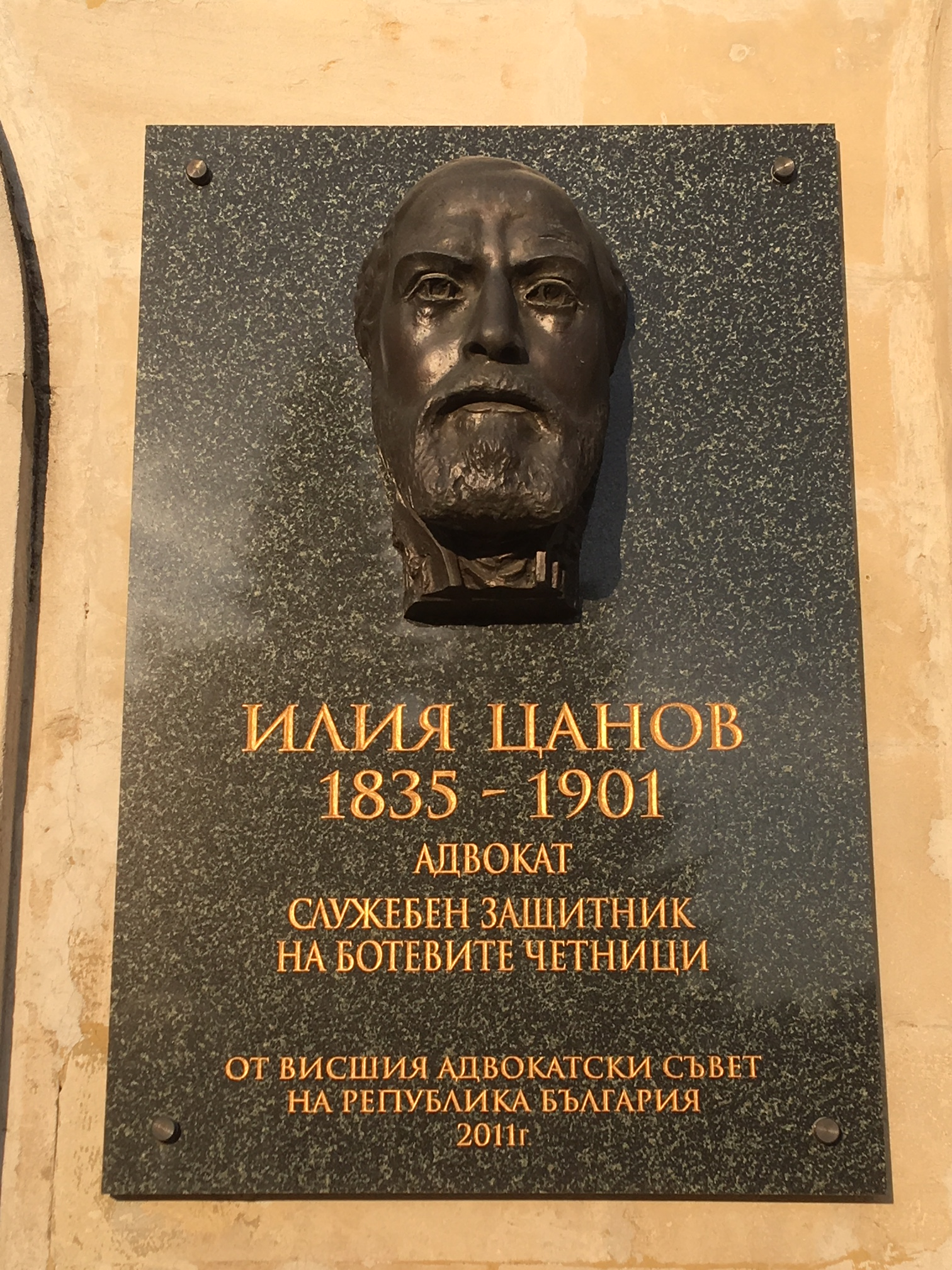 Ilia Tsanov - Russe - memorial